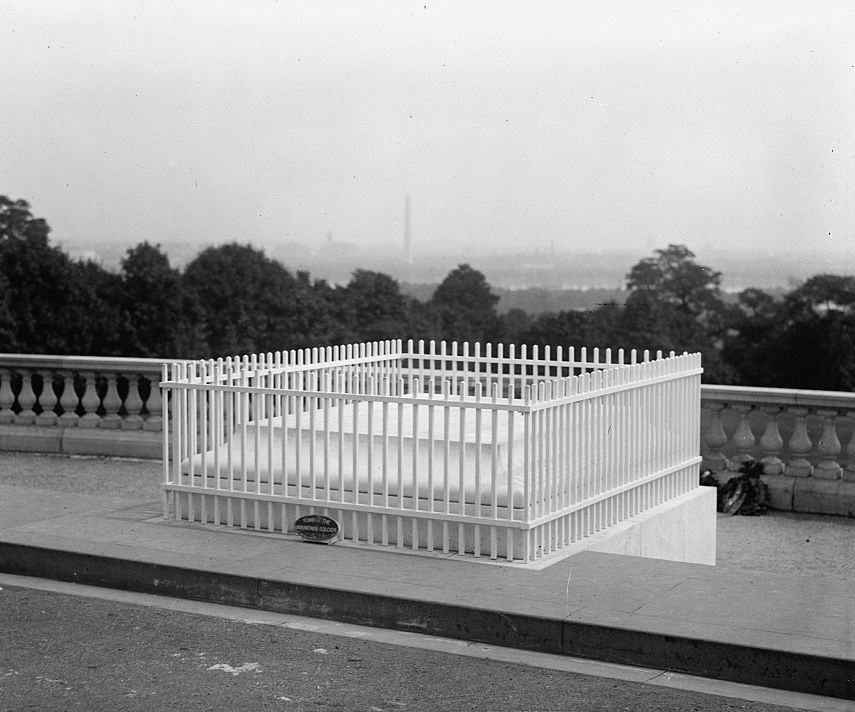 Tomb of Unknown soldier